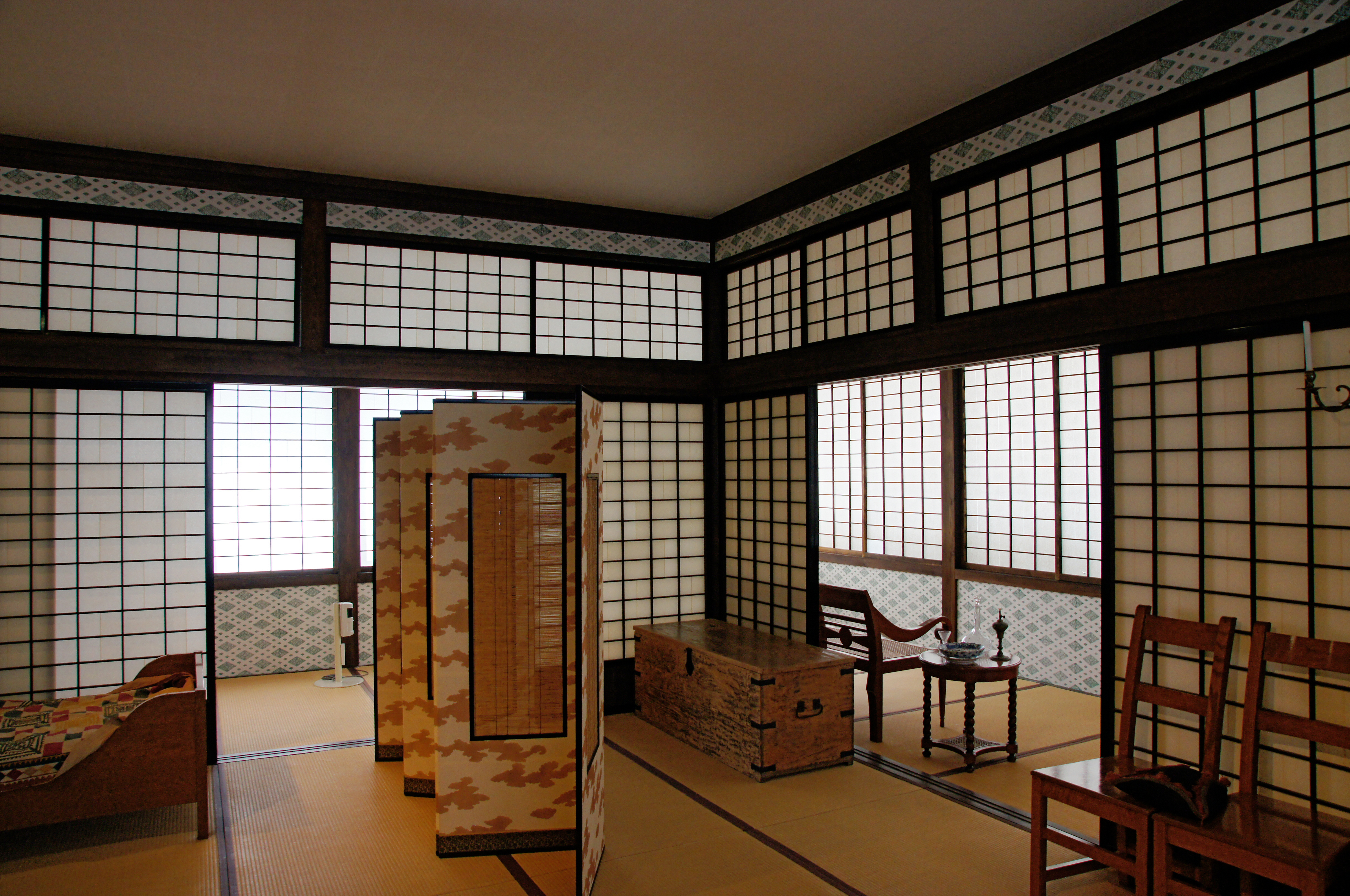 Dejima in Nagasaki, Nagasaki prefecture, Japan